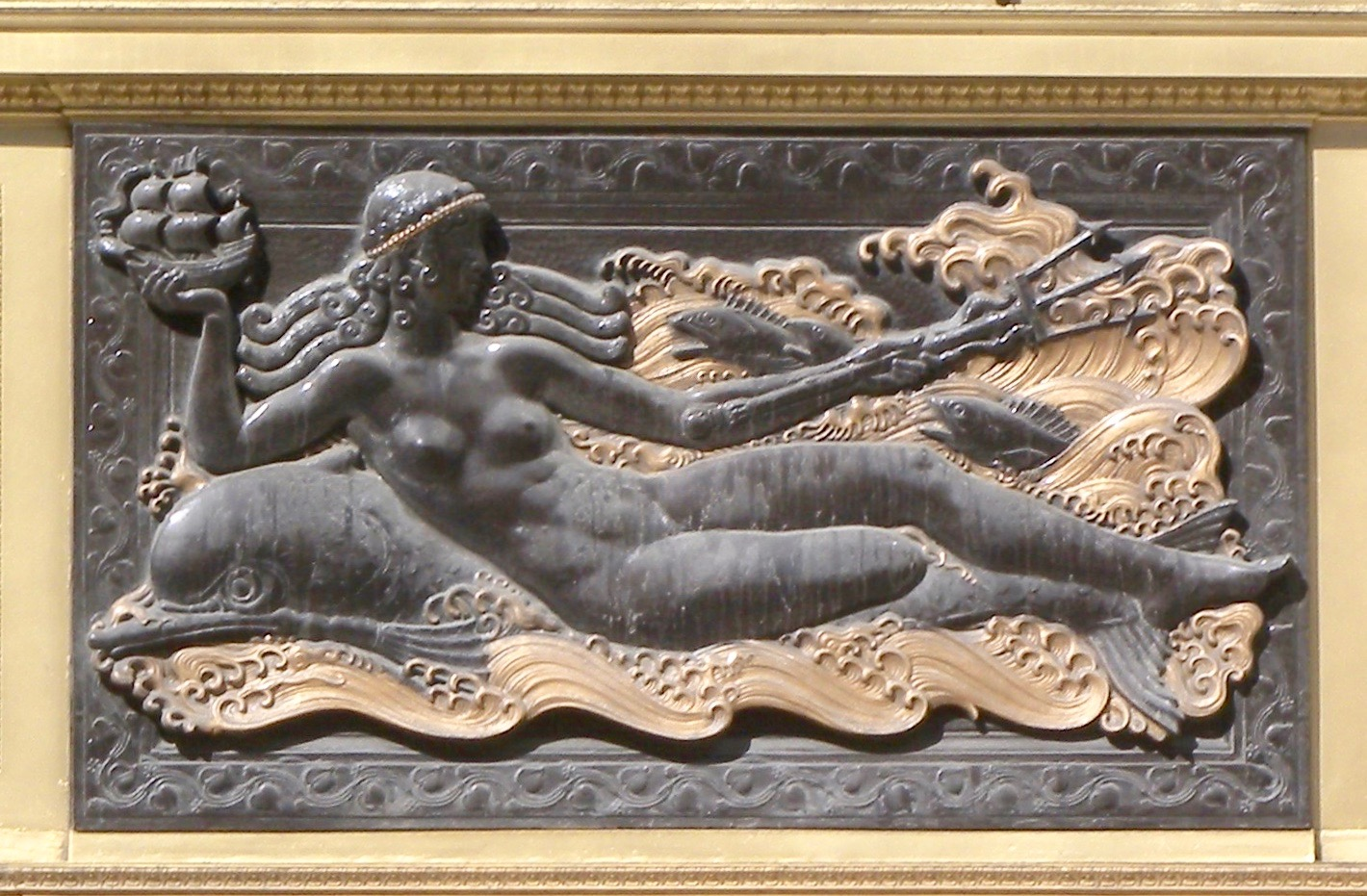 Artwork at entrance to 195 Broadway, Manhattan, New York City by Paul Manship (cropped from a Commons file)